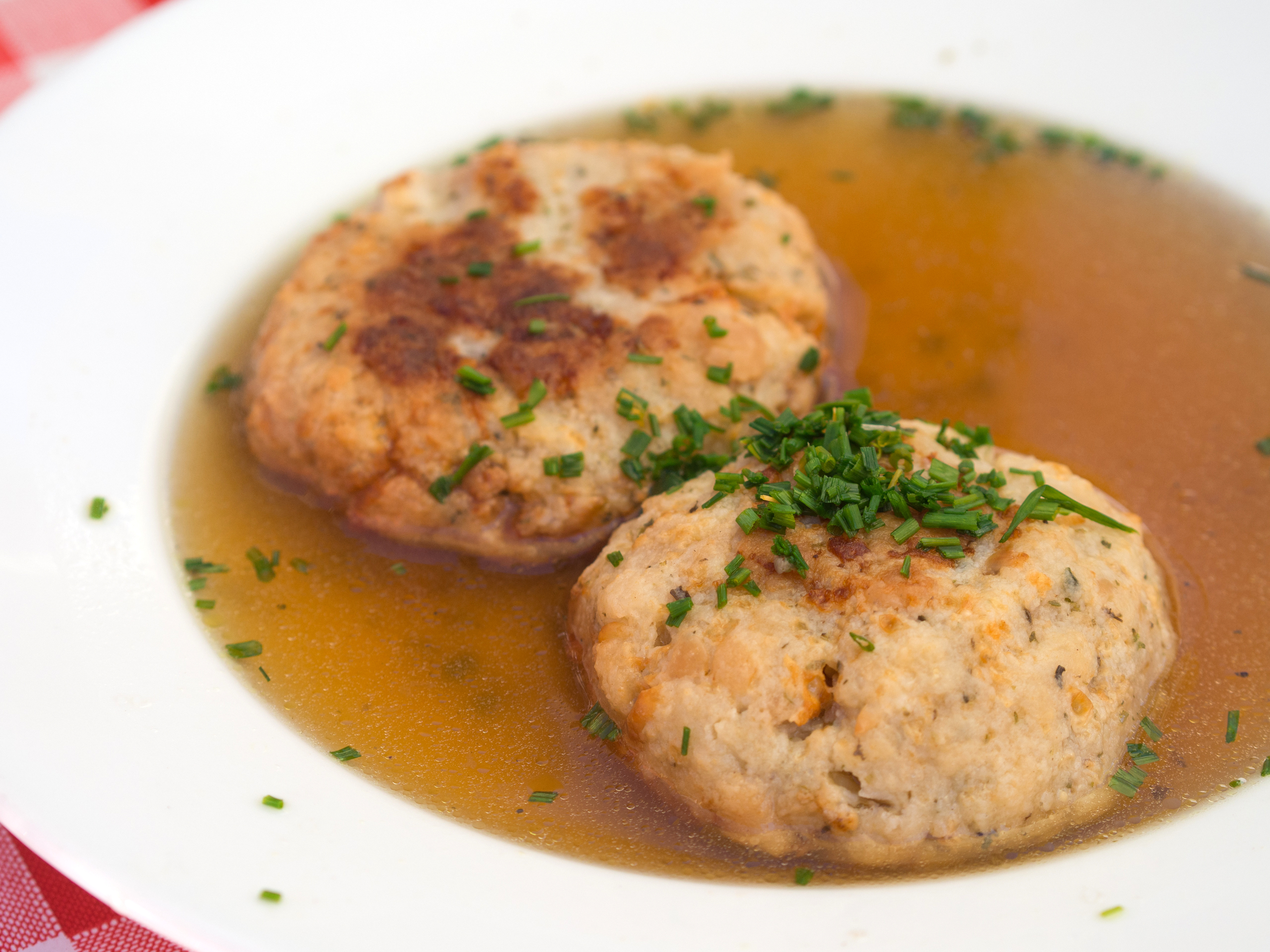 Bread dumplings with cheese served in a clear broth; at the Edelweisshütte above Sölden, Tyrol